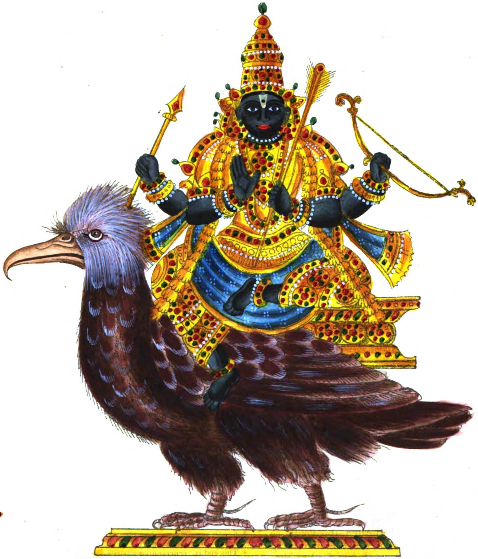 Shani